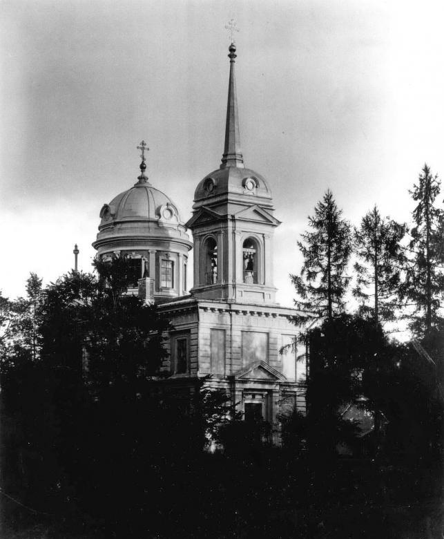 Pavlovsk (Russia)